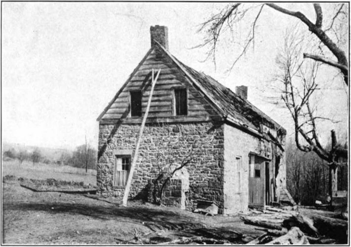 Early house in Stone House Plains (now Brookdale), about 1910. Evidently built in two stages (note varied roof height) of local stone. Note the Dutch oven (outcropping for cooking) or remant of one, at ground level.